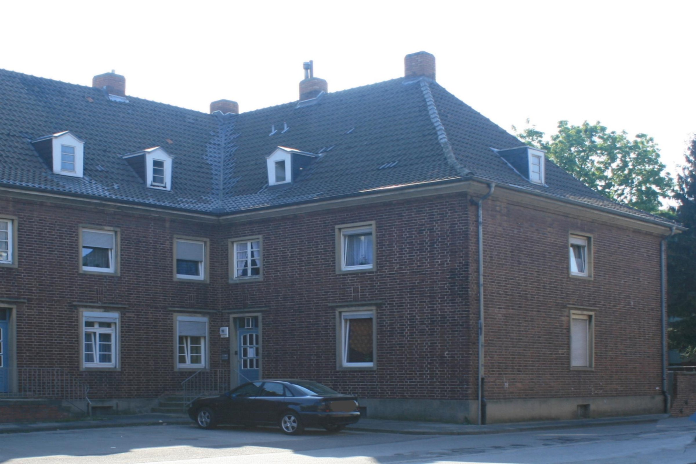 Cultural heritage monument No. 1/053 in Düren